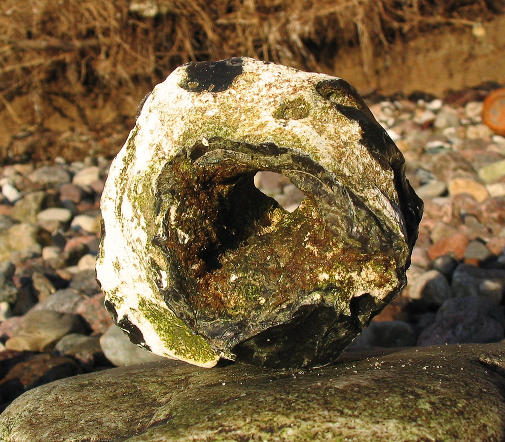 Flintstone with a hole (hagstone)